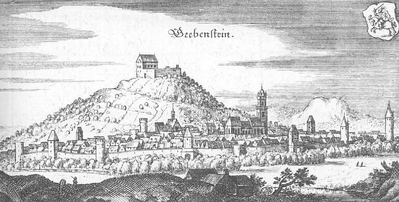 This is a scan of the historical document: Title: Grebenstein - Topographia Hassiae language: german